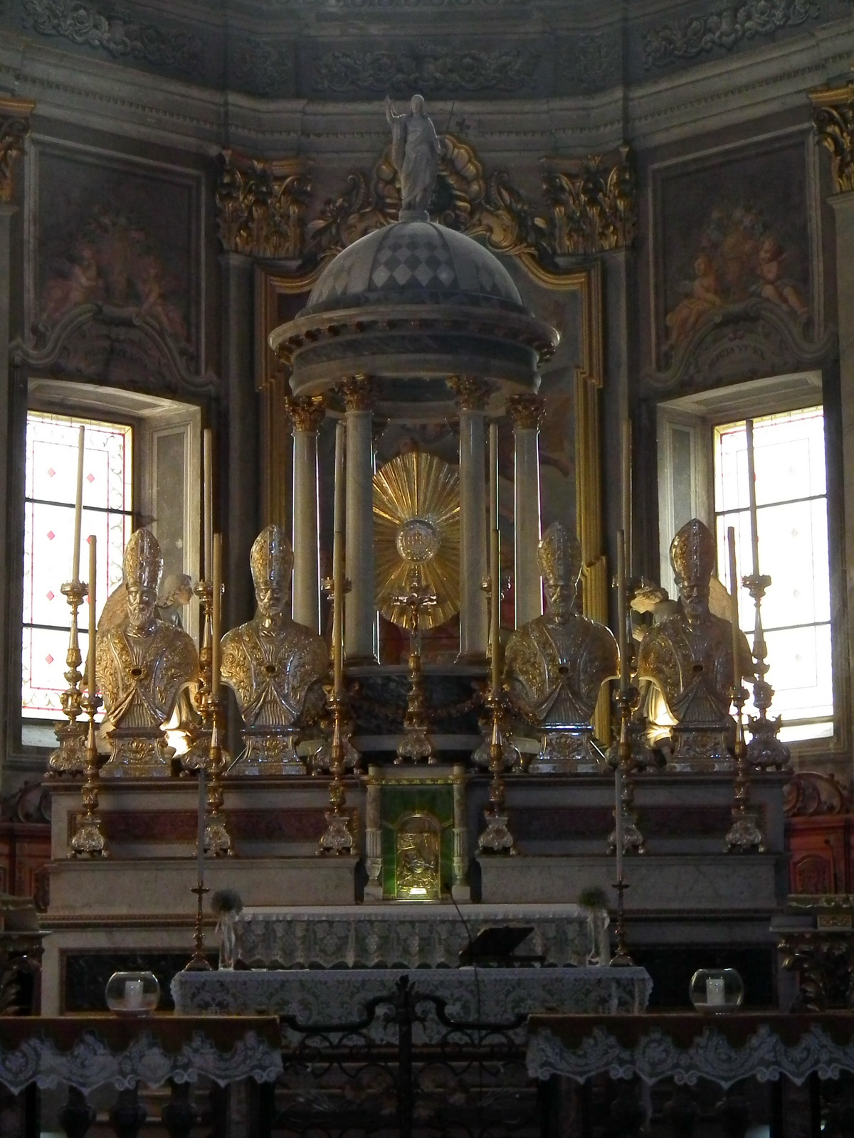 Santa Maria Assunta, Santa Maria Maggiore, Piedmont, Italy Church of the Assumption of Mary Native nameChiesa di Santa Maria AssuntaLocationSanta Maria Maggiore, Piedmont, ItalyCoordinates46° 08′ 07″ N, 8° 28′ 05″ E